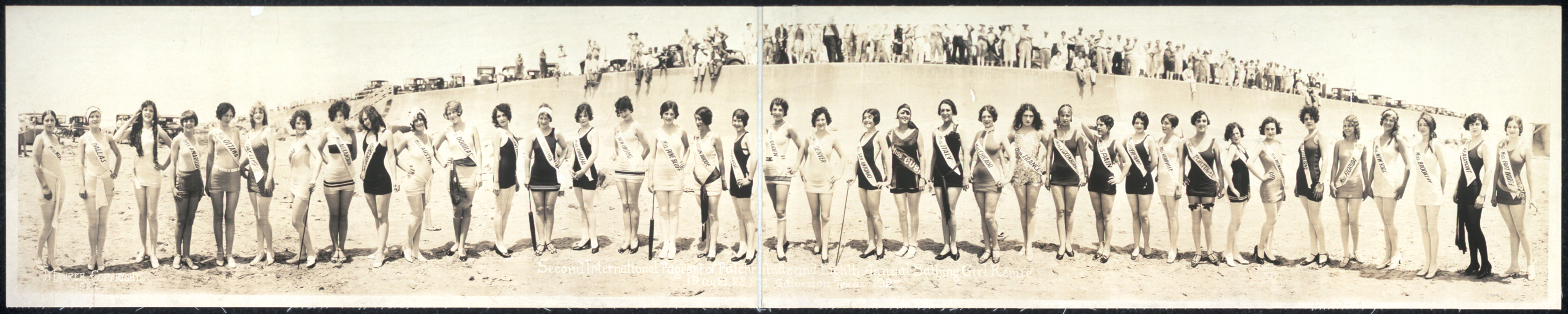 Second International Pageant of Pulchritude and Eighth Annual Bathing Girl Revue, May 21, 22, 23, Galveston, Texas, 1927